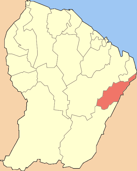 Made map myself.